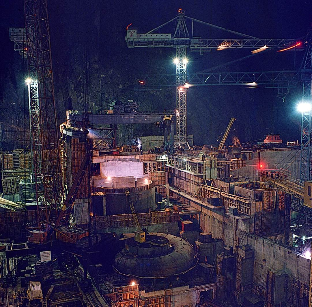 This is a part of the official document archived on Wikisource. Please do not modify this image.